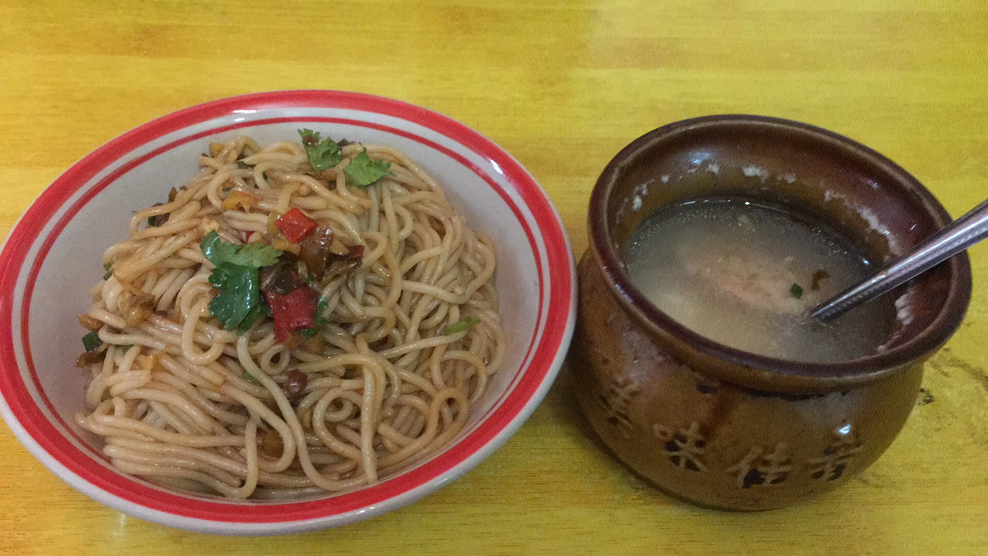 Mixing powder and earthenware soup